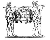 Salii carrying ancilia